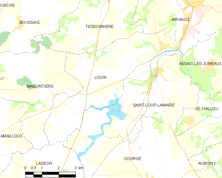 Map of French municipality Louin